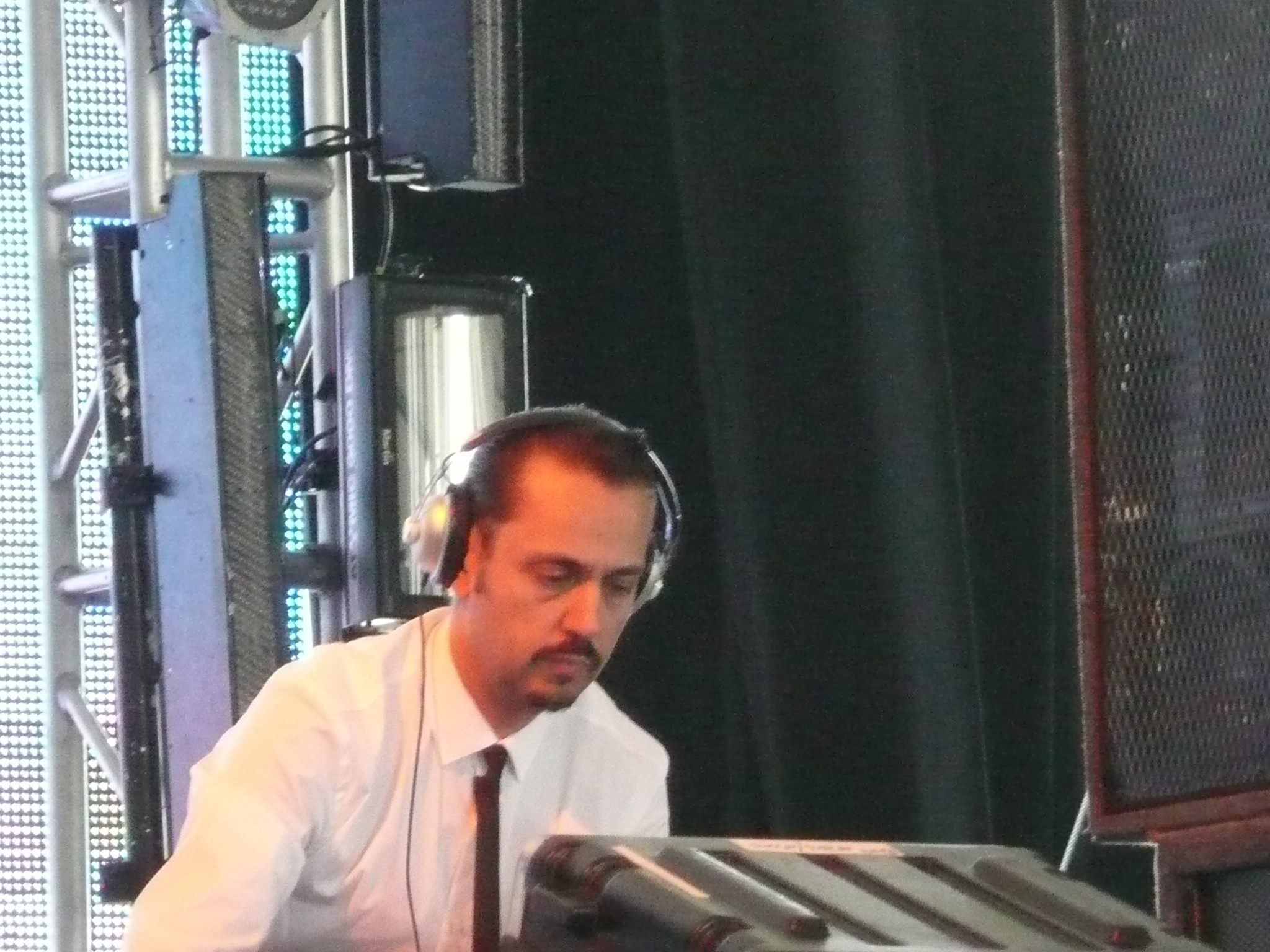 Dimitri from Paris at Coachella Valley Music and Arts Festival (2008)